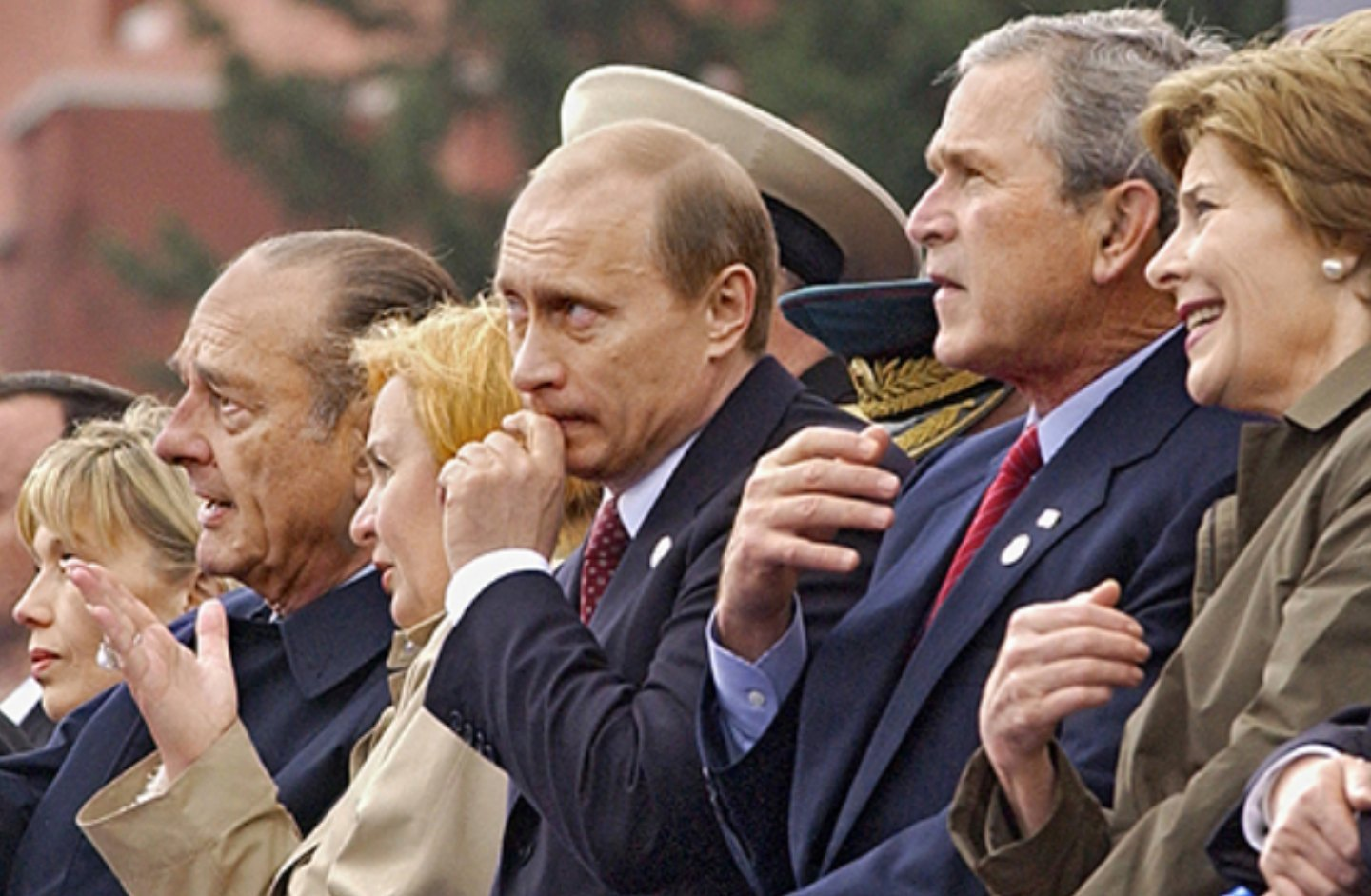 RED SQUARE, MOSCOW. At the military parade celebrating the sixtieth anniversary of victory in World War II.